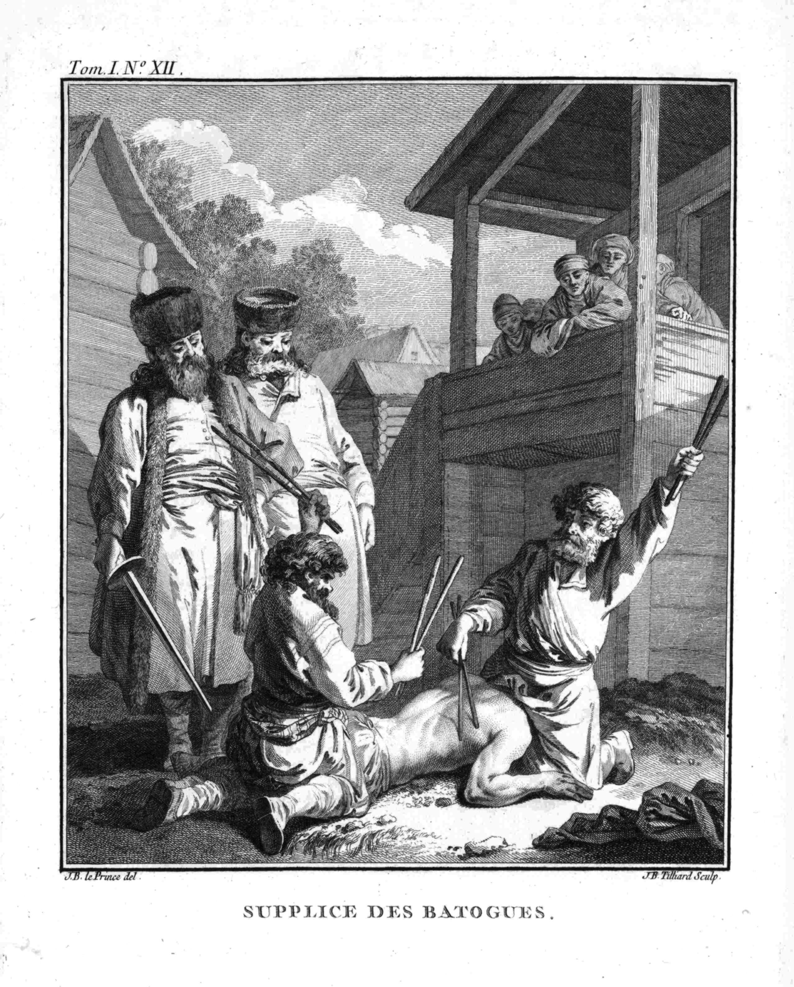 A print showing a man being restrained and beaten with batogs, which are rods or sticks about the thickness of a man's finger.